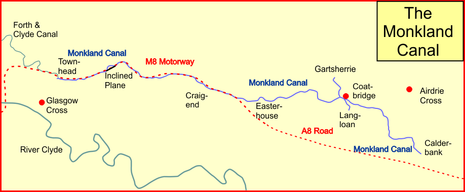 Diagram of the course of the Monklland Canal, in the West of Scotland, with the M8 motorway superimposed